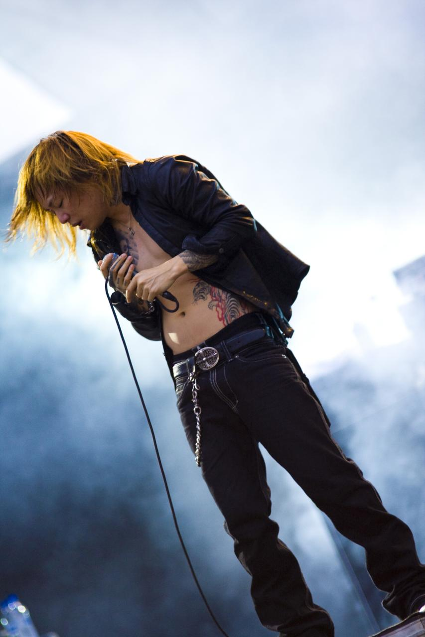 Kyo, vocalist of Dir en grey, performing live at Maquinaria Festival in Brazil.